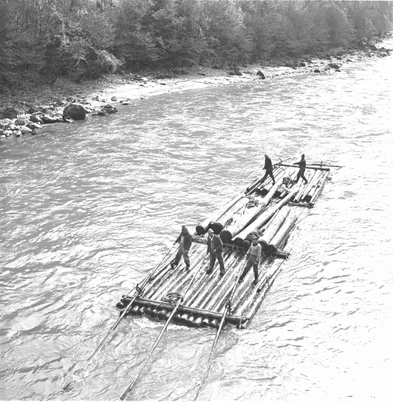 Timber floating on the river Sulm near Gasselsdorf, Styria.